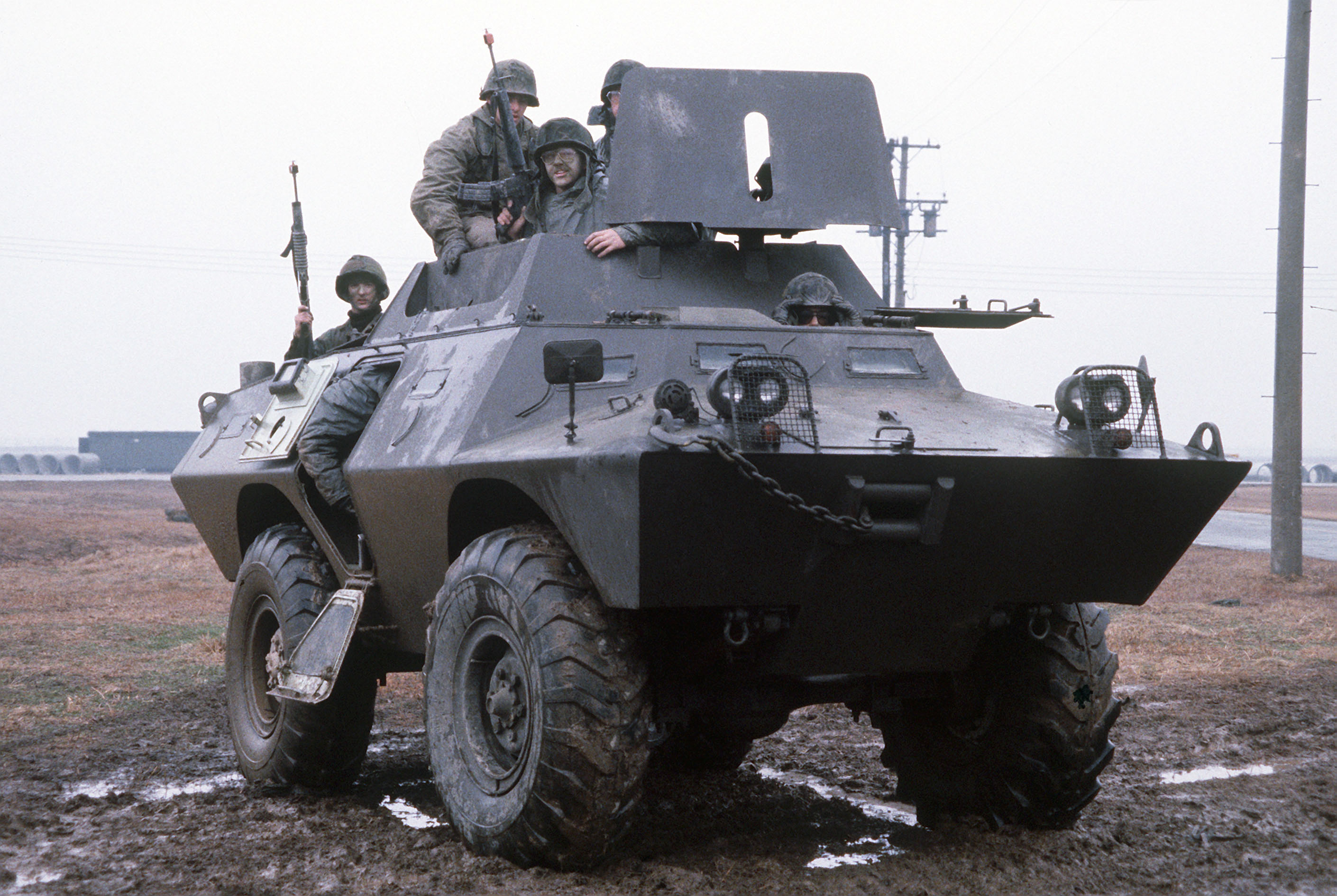 Security policeman aboard an armored vehicle participate in exercise Team Spirit '81.